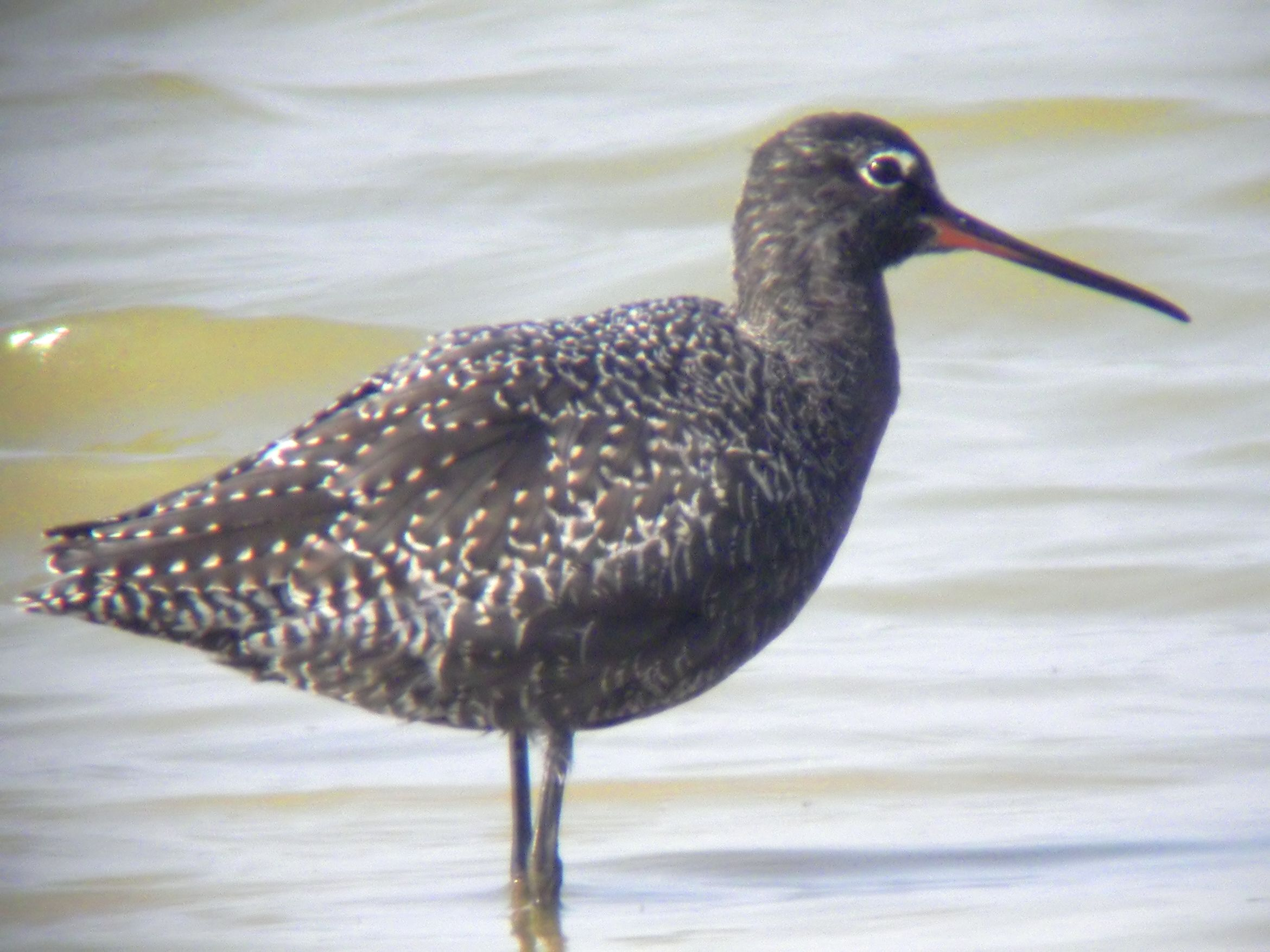 Spotted Redshank (Tringa erythropus), adult summer, Hong Kong